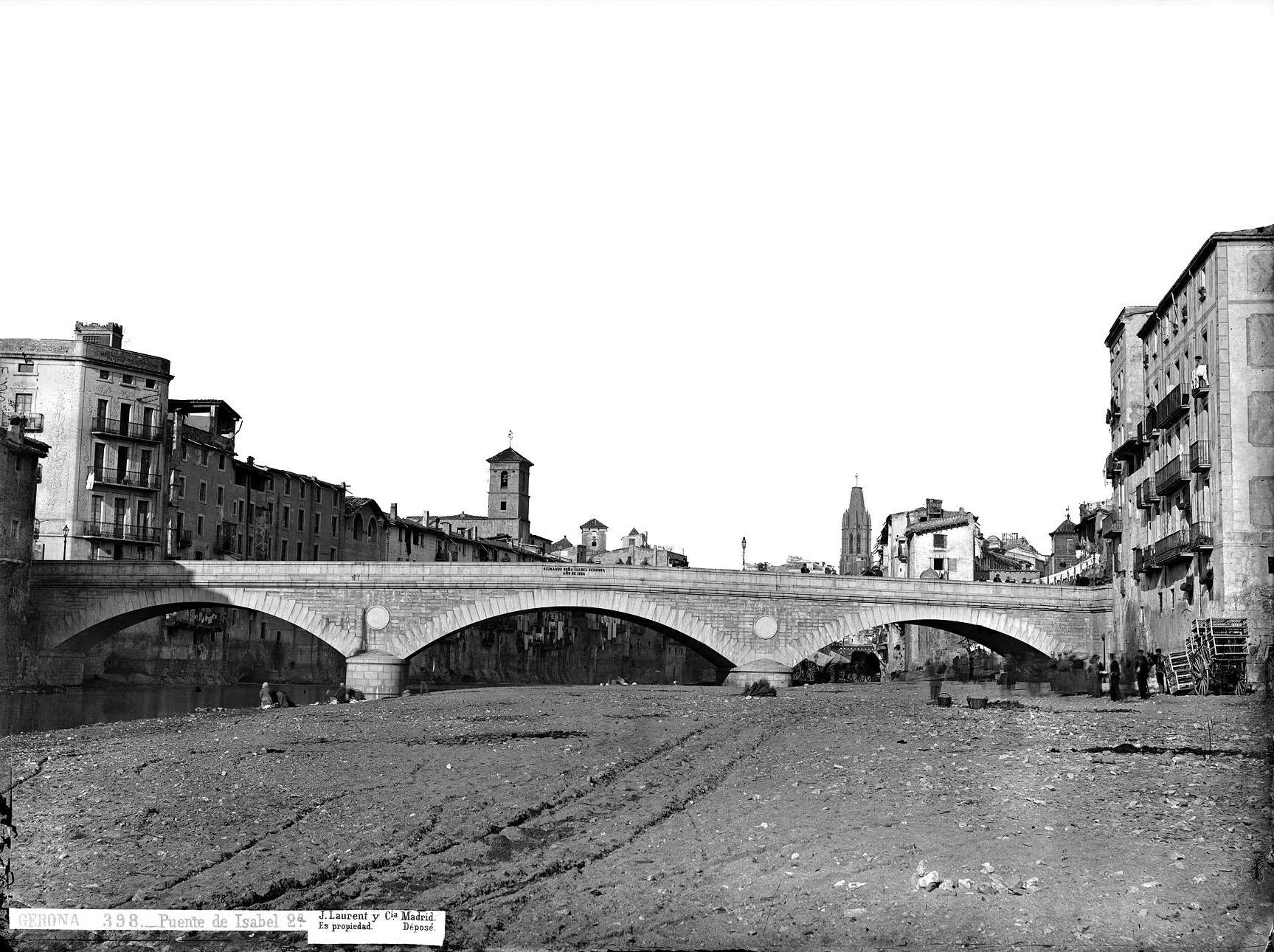 Photo of Gerona (or Girona), Spain, circa 1867. Photo by Jose Martinez Sanchez, associated with J. Laurent. The original glass negative is preserved in Madrid, in the Photo Library of the Institute of Cultural Heritage of Spain.